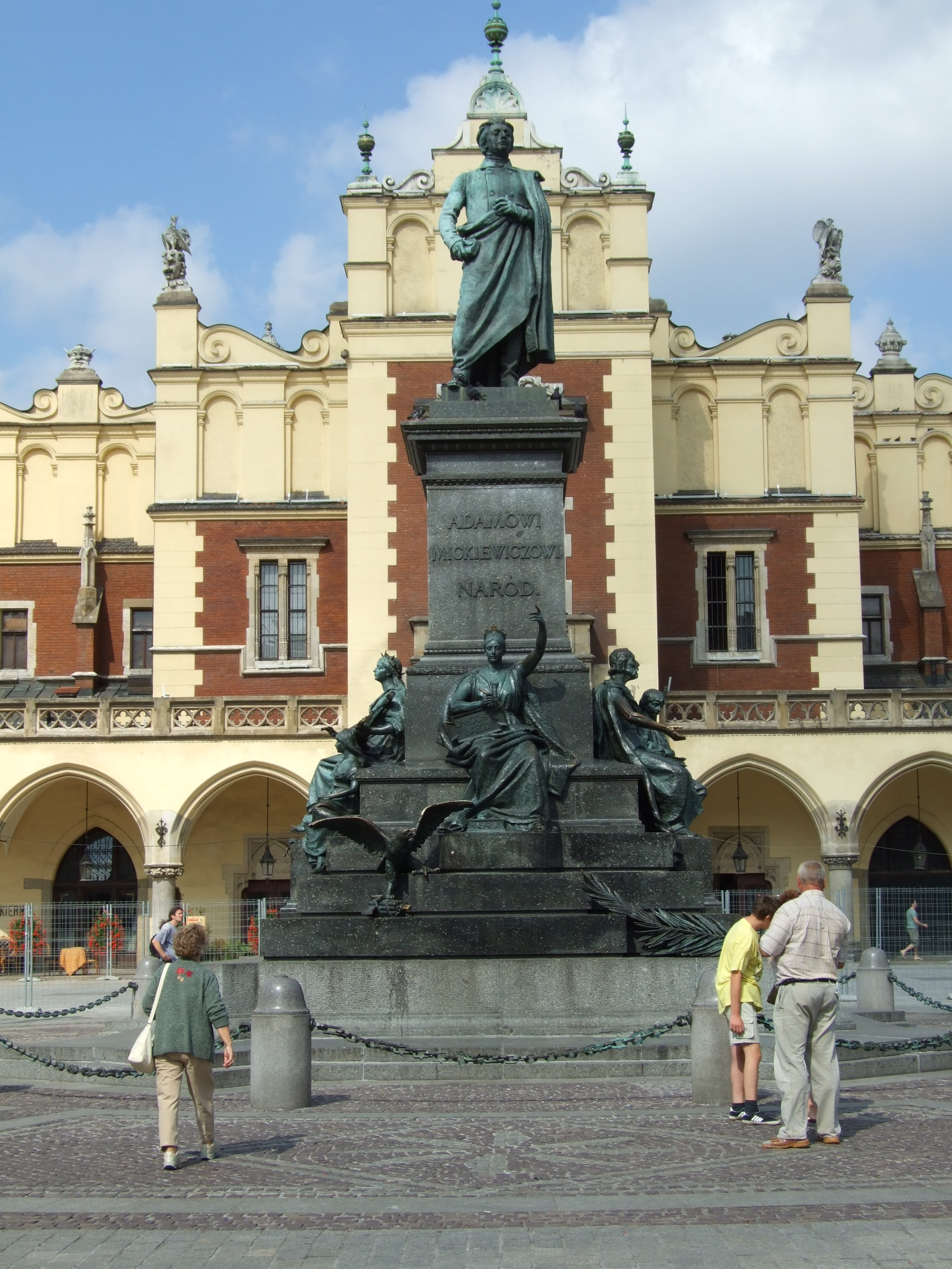 Adam Mickiewicz Monument, Rynek, Kraków, Poland